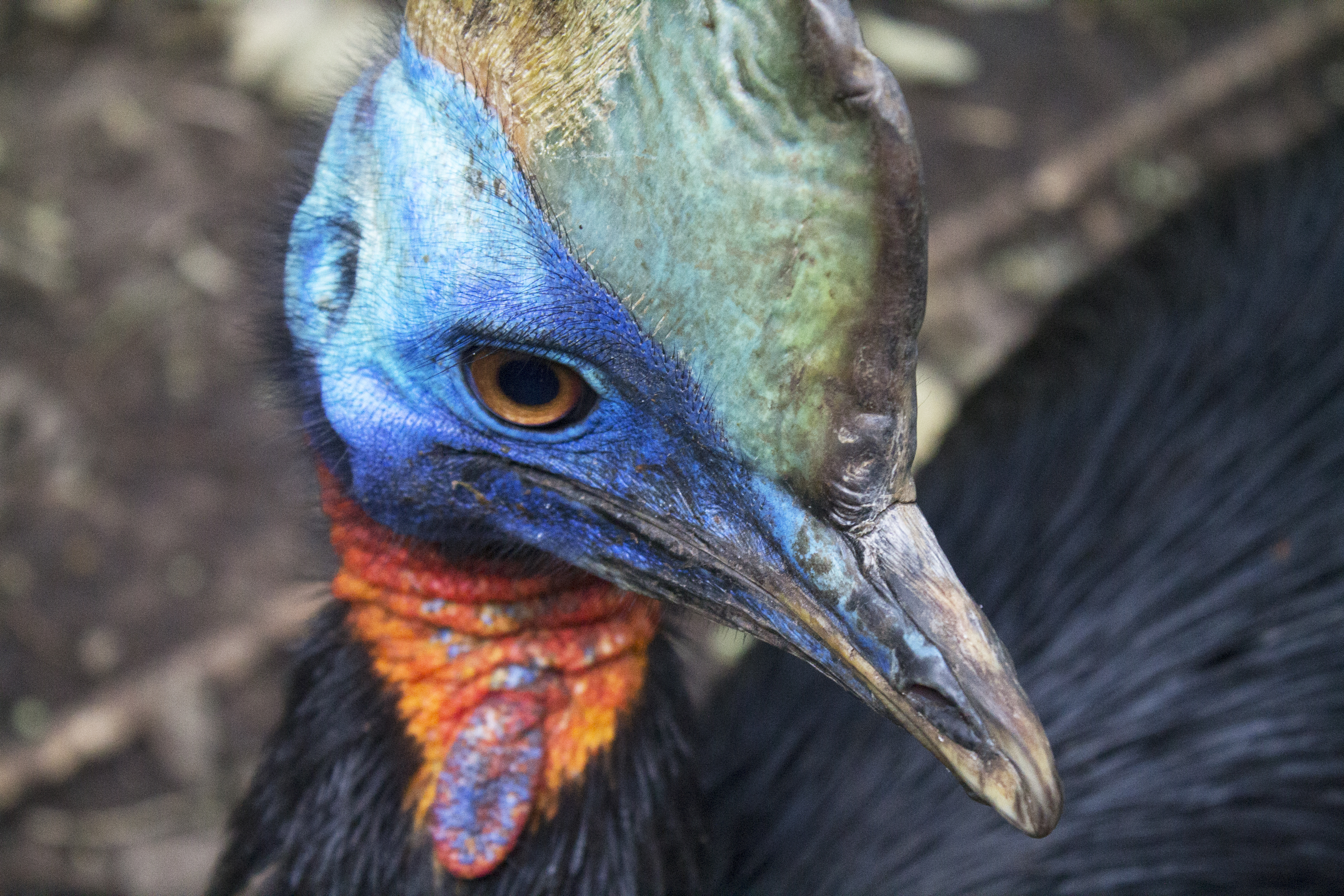 Single-wattled Cassowary (Casuarius unappendiculatus) in Bandung Zoo, West Java, Indonesia